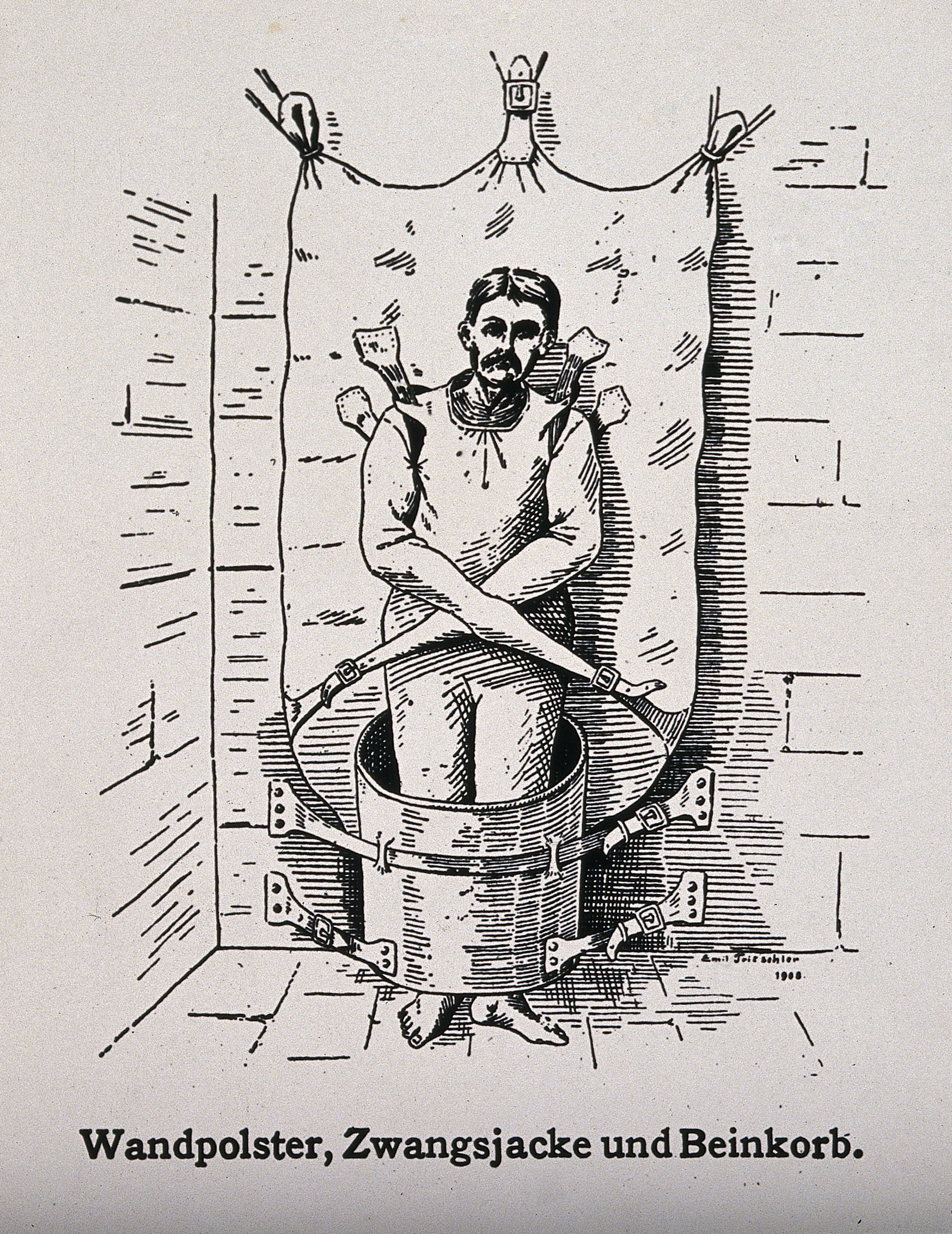 A mentally ill patient in a strait-jacket attached to the wall and a strange barrel shaped contraption around his legs. Photograph after a wood engraving by E. Tritschler, 1908. Iconographic Collections Keywords: Emil Tritscler